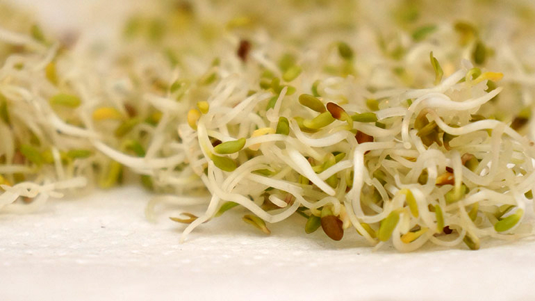 Alfalfa seeds after they sprout for 3-4 days.